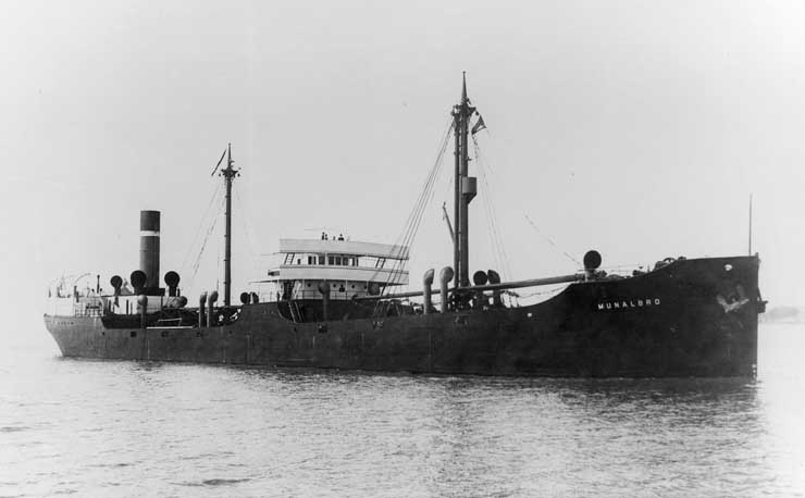 Collier SS Munalbro shortly after completion in 1916 and prior to her 1918-1919 U.S. Navy service as USS Munalbro (1916)